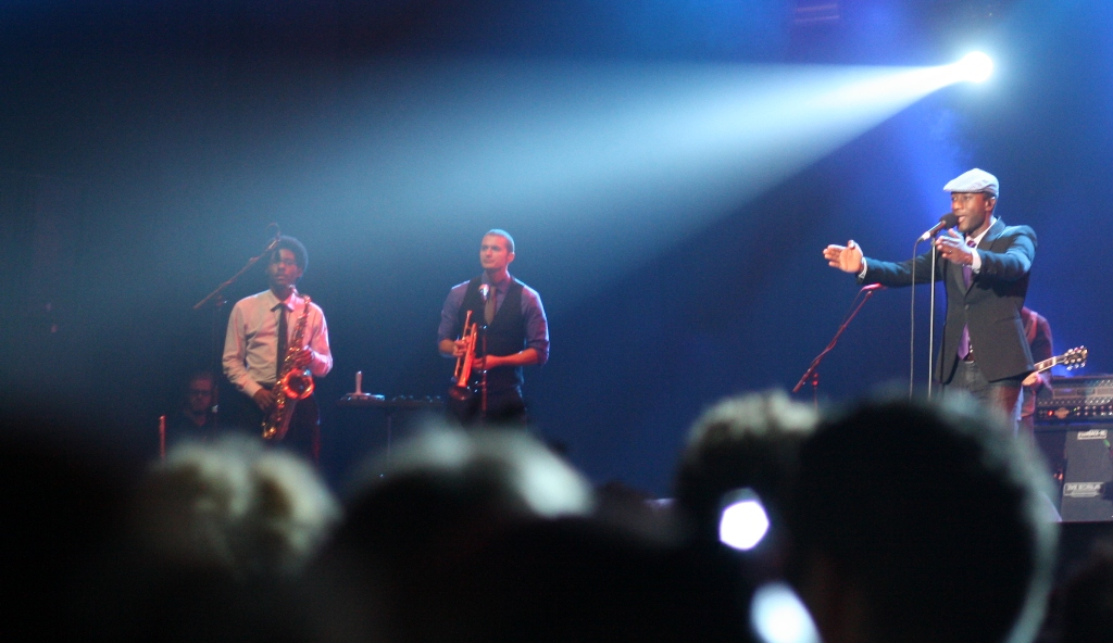 North Sea Jazz Festival 2012 - ALOE BLACC & THE GRAND SCHEME. Aloe Blacc with Randal Fisher (saxophone); Chris Bautista (trumpet) live at the NSJ Sunday 08 July 2012. The North Sea Jazz Festival is an annual jazz festival held each second weekend of July in Rotterdam the Netherlands at the Ahoy venue. Founded in 1976 by Indies Dutchman Paul Acket in The Hague.